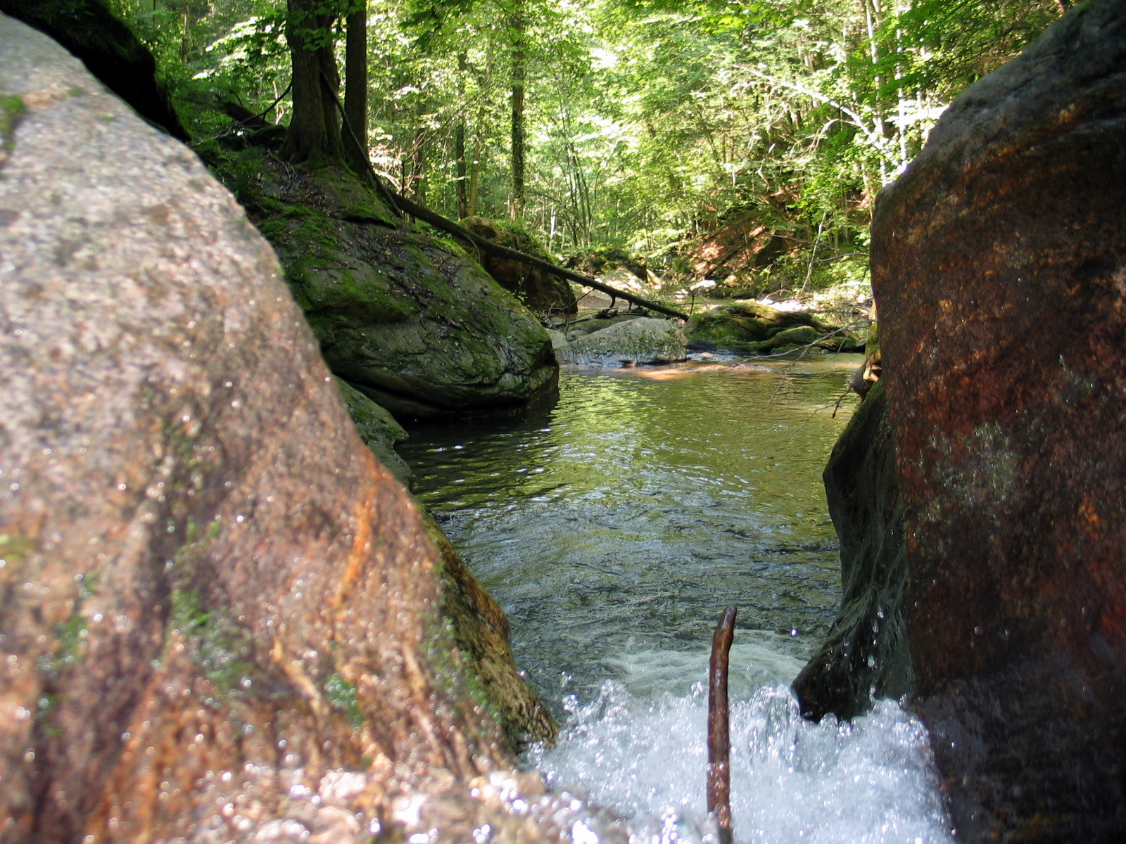 River Teigitsch in Styria / Austria / European Union.